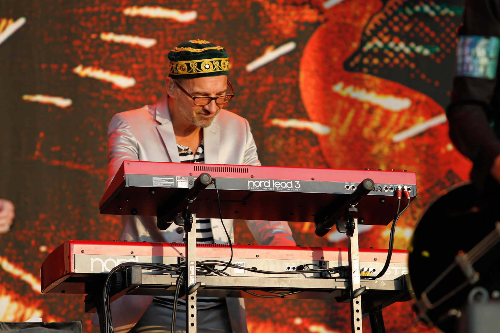 Clarence Öfwerman performing live on stage.